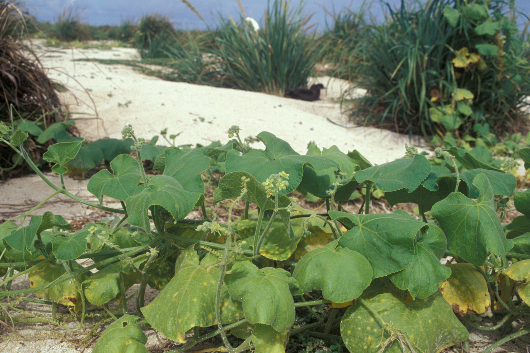 Sicyos maximowiczii (habit). Location: Laysan Island, Inland